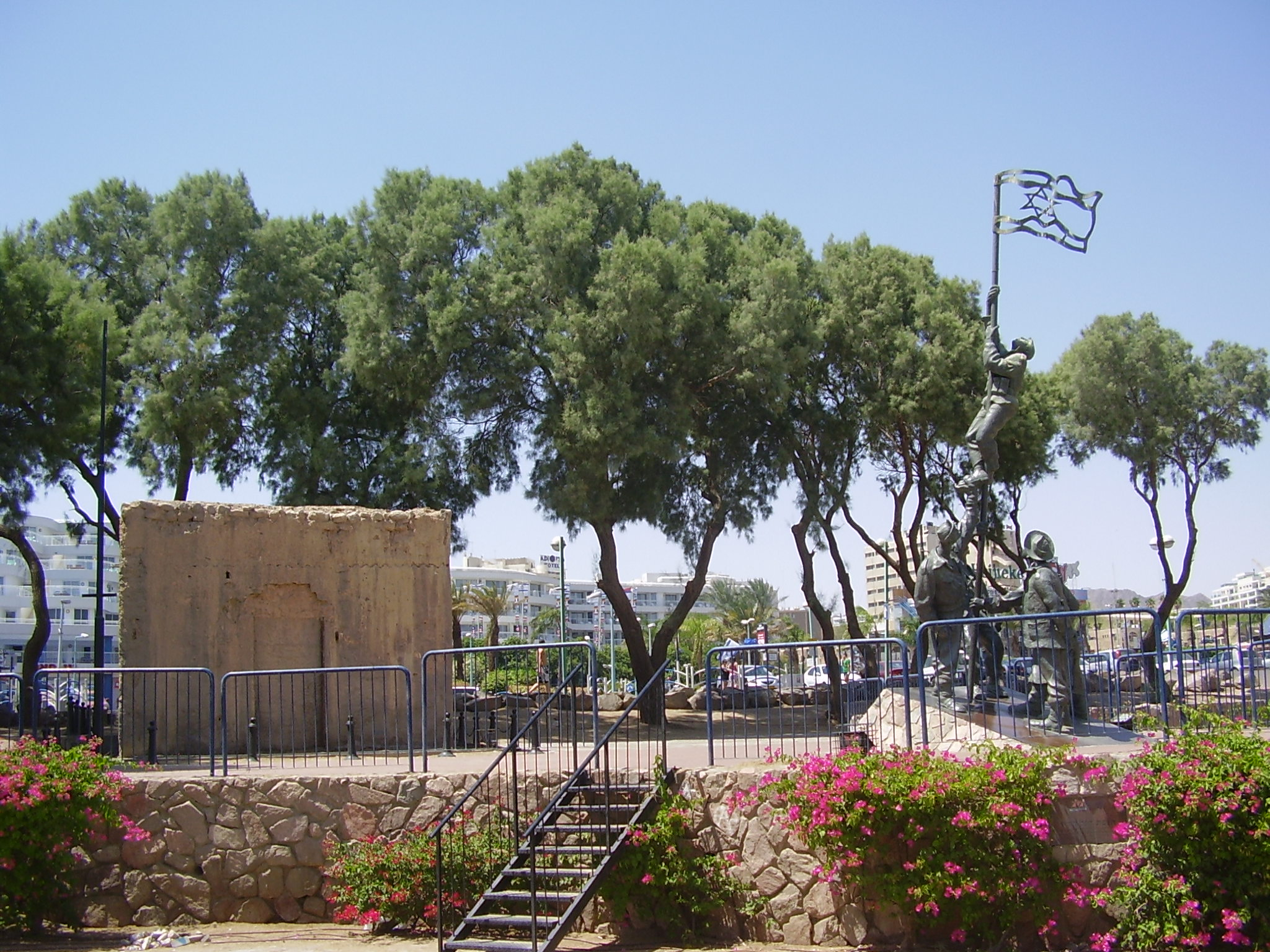 the flag sculpture in eilat